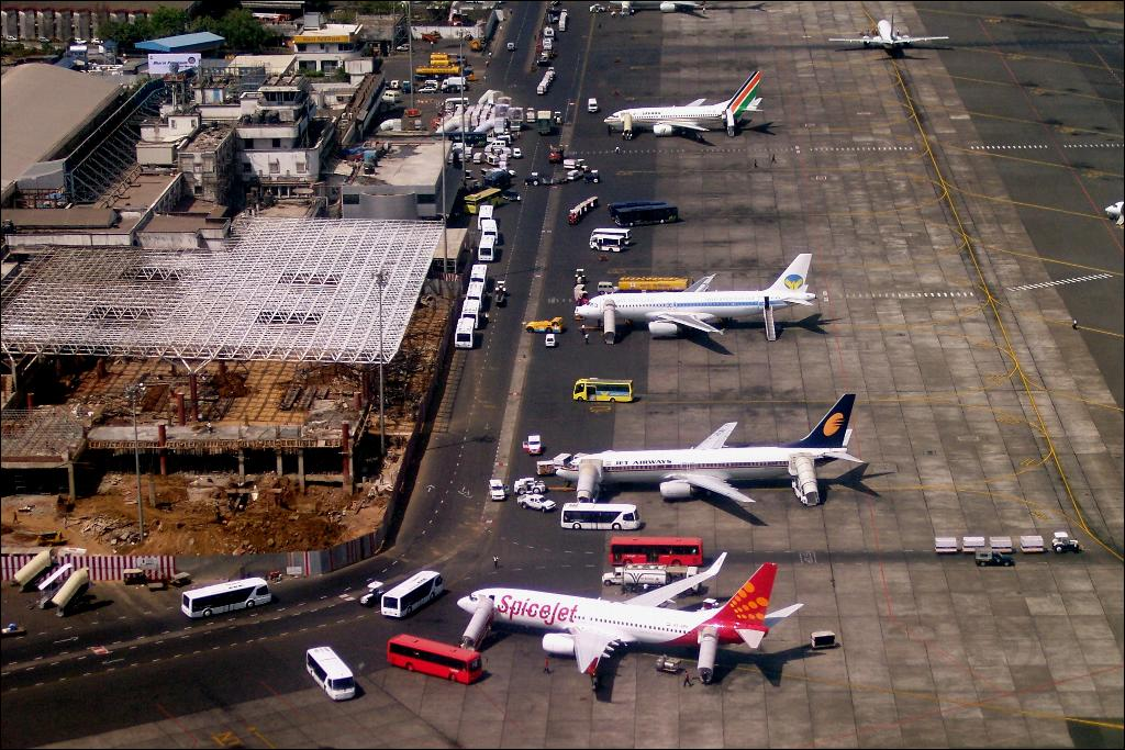 Ramp view of the domestic side of Chhatrapati Shivaji International Airport